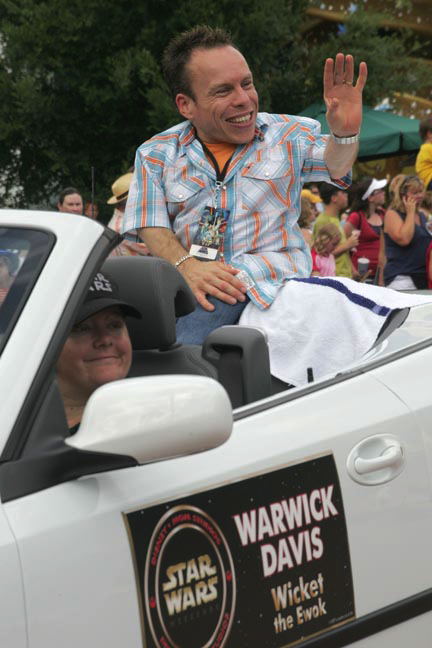 Warwick Davis waves to fans during the Legends of the Force parade (Disney's MGM Studios, Florida, USA). Photo by Ron Riccio. For video coverage of the fourth and final Disney Weekend of 2007, click here.